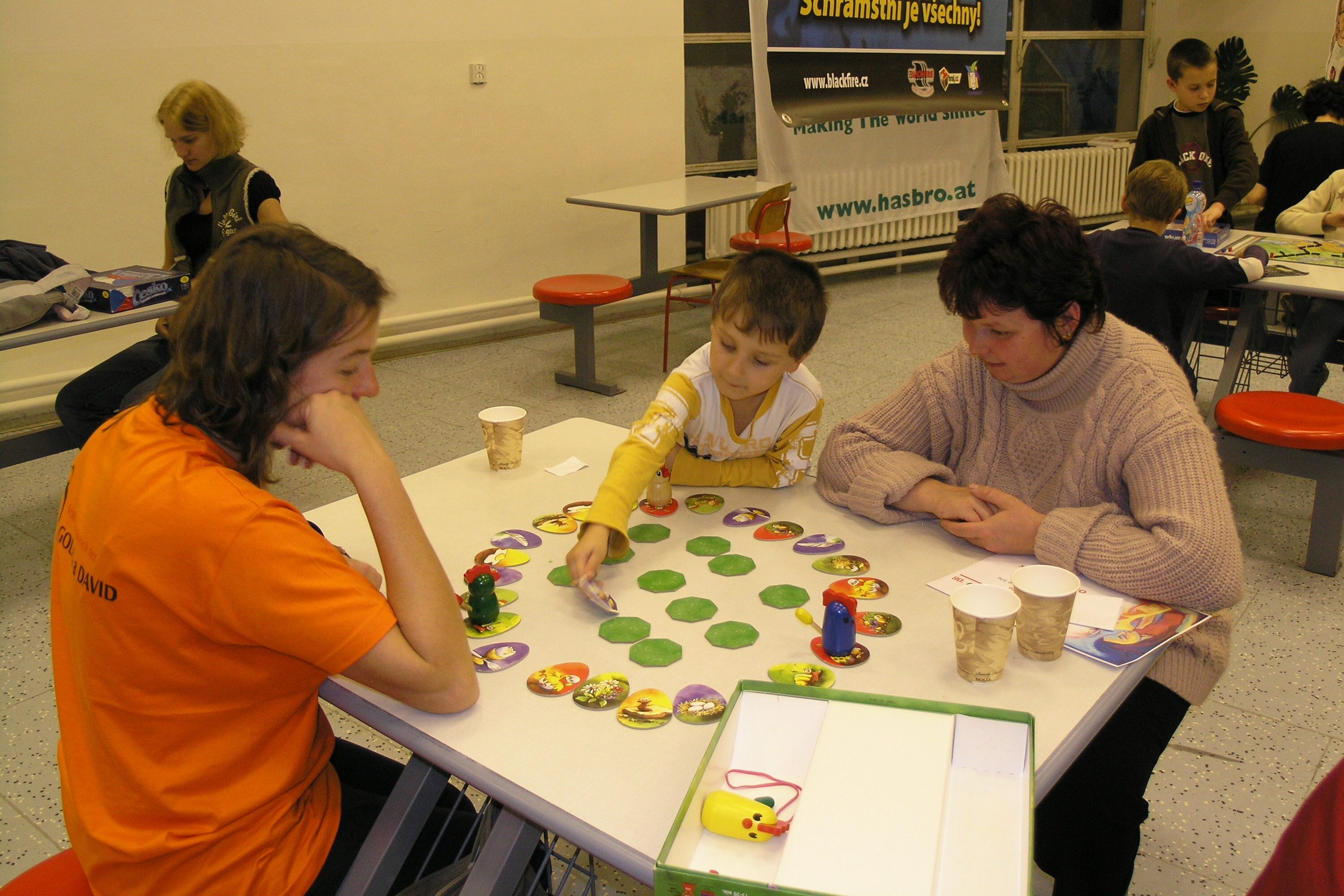 Personality rights warning Although this work is freely licensed or in the public domain, the person(s) shown may have rights that legally restrict certain re-uses unless those depicted consent to such uses. In these cases, a model release or other evidence of consent could protect you from infringement claims.